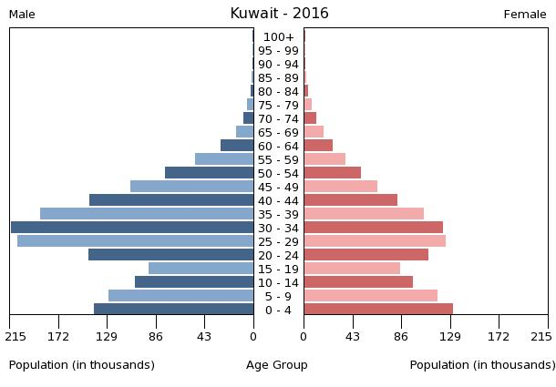 The population pyramid of Kuwait illustrates the age and sex structure of population and may provide insights about political and social stability, as well as economic development. The population is distributed along the horizontal axis, with males shown on the left and females on the right. The male and female populations are broken down into 5-year age groups represented as horizontal bars along the vertical axis, with the youngest age groups at the bottom and the oldest at the top. The shape of the population pyramid gradually evolves over time based on fertility, mortality, and international migration trends.